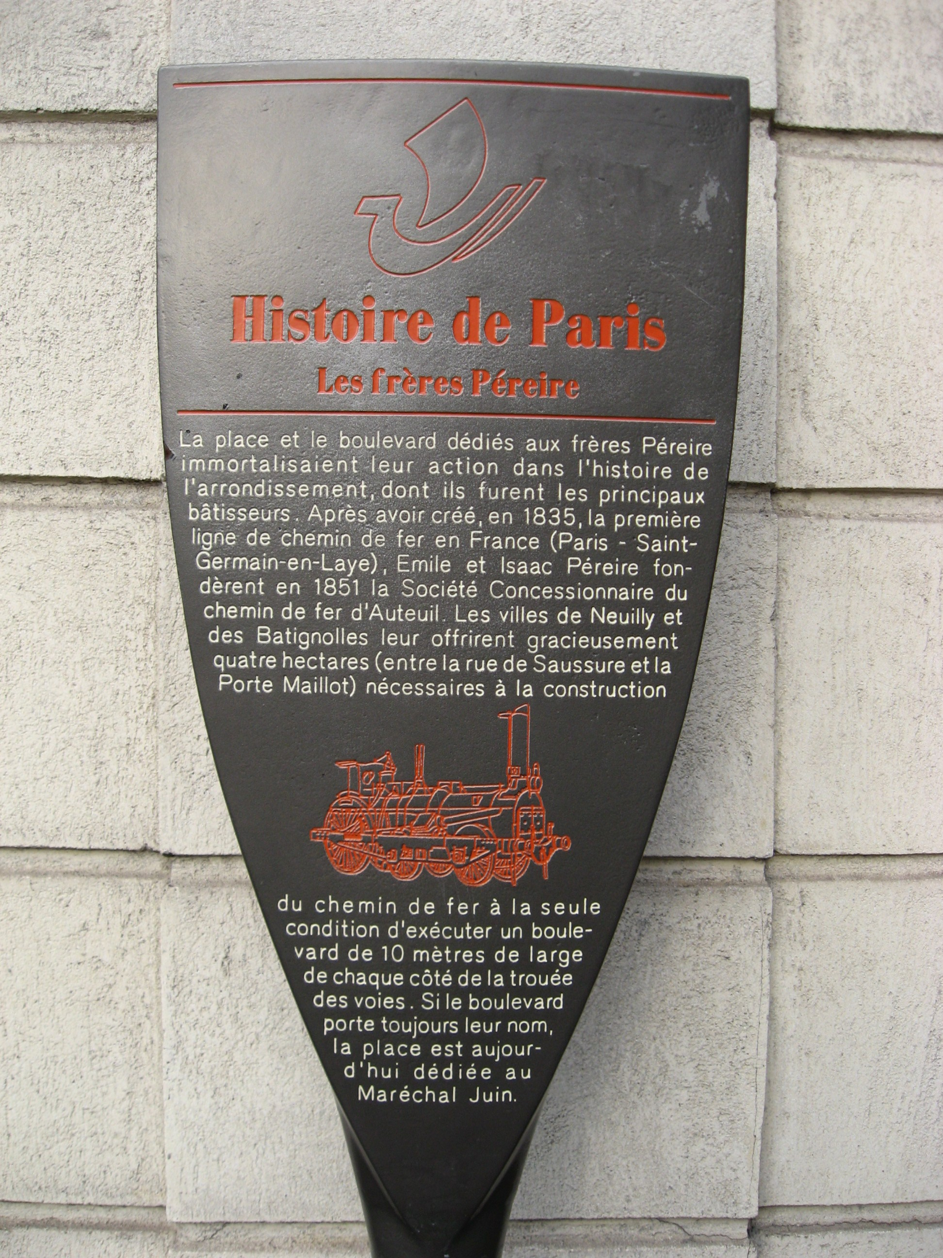 History explanation board at Pereire-Levallois.